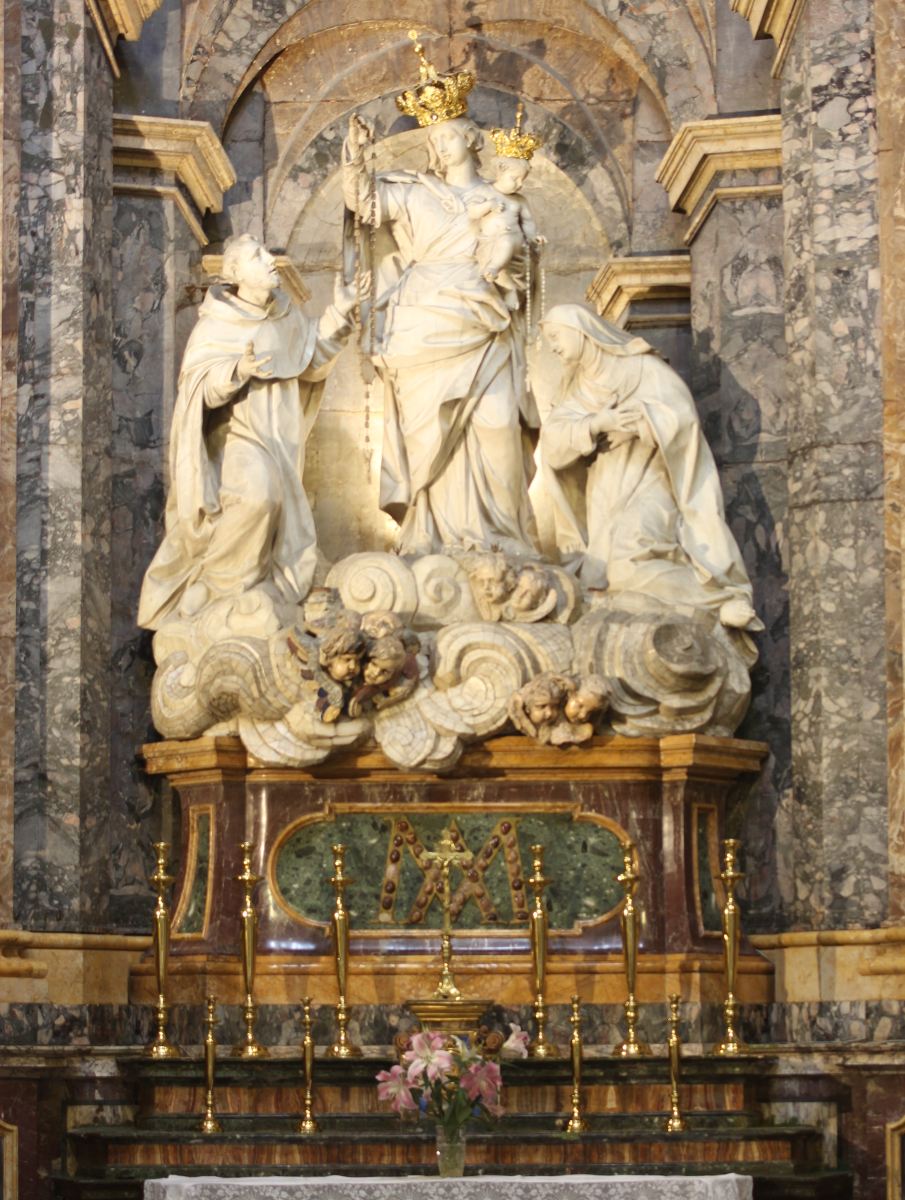 Our Lady of the Rosary in Catherine a Formiello